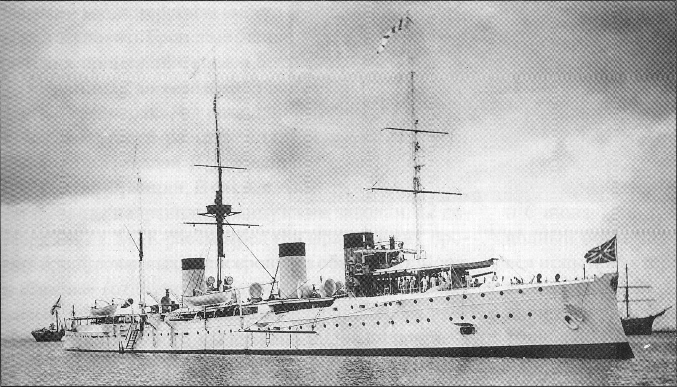 Imperial Russian cruiser Zhemchug at Vladivostok, 1906.